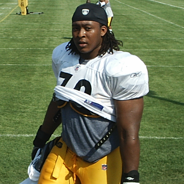 photo of Darnell Stapleton at Steelers training camp in 2007